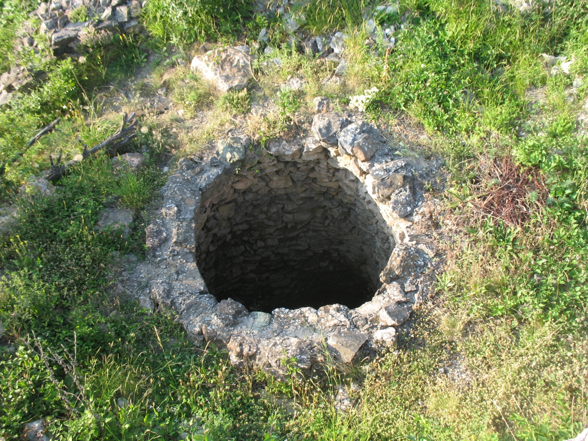 Old well (it still has water) in Koznik fortress above Rasina river on Kopaonik slopes,near Brus, Serbia.